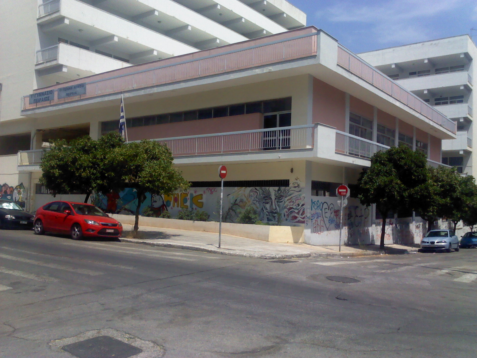 1st high school pPireas